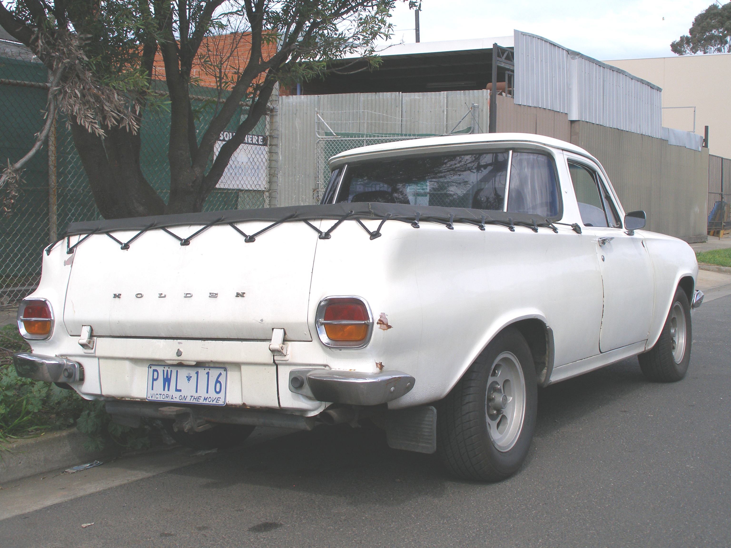 1962–1963 Holden EJ utility, photographed in Victoria, Australia.